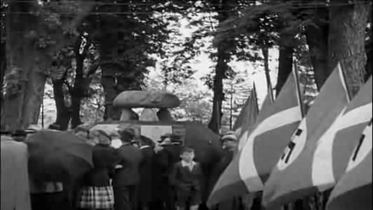 Video still image number 11178 of 14239, at 07:30. See also File: Waffen-SS memorial and raw footage (Denmark, 1944).ogv